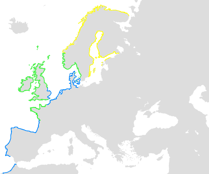 Range map for Anthus petrosus based on Hoyo, Josep del; Elliott, Andrew; Sargatal, Jordi; Christie, David A; de Juana, Eduardo (eds.) (2013). publisher= Lynx Edicions Rock Pipit (Anthus petrosus). Handbook of the Birds of the World Alive. Retrieved on 29 September 2016. (subscription required) and (1998) The Birds of the Western Palearctic concise edition, 2, Oxford: Oxford University Press, p. 1,090 ISBN: 0-19-854099-X. . Base map File:Blank_map_Europe_without_borders.png